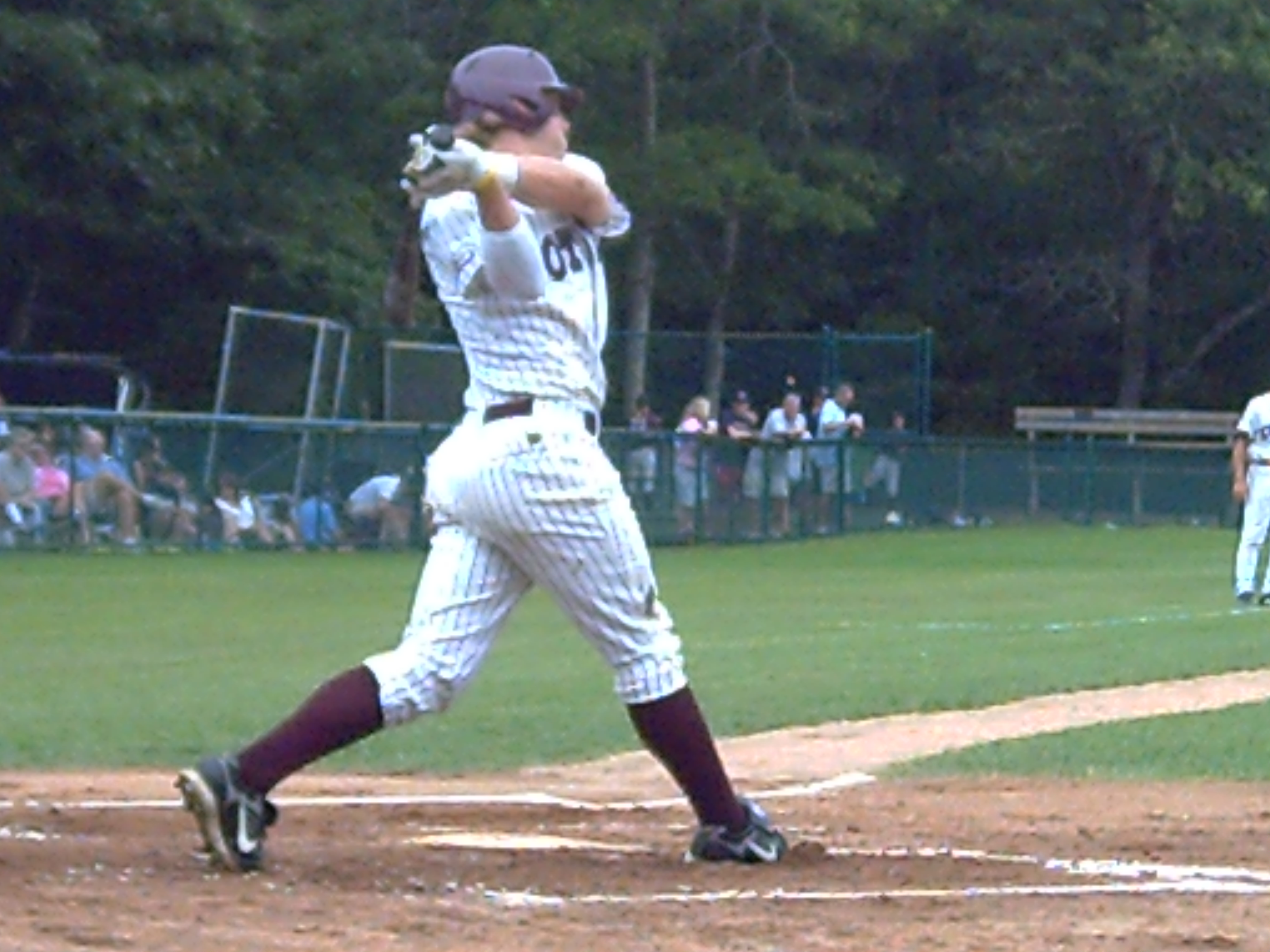 Kettleer Brett Jackson in action v. Hyannis-Lowell Park/Cotuit.